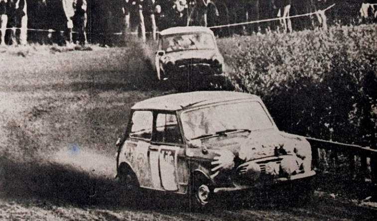 Timo Mäkinen (ahead) and Rauno Aaltonen during the Hippos circuit stage of the 1965 1000 Lakes Rally (Rally Finland).